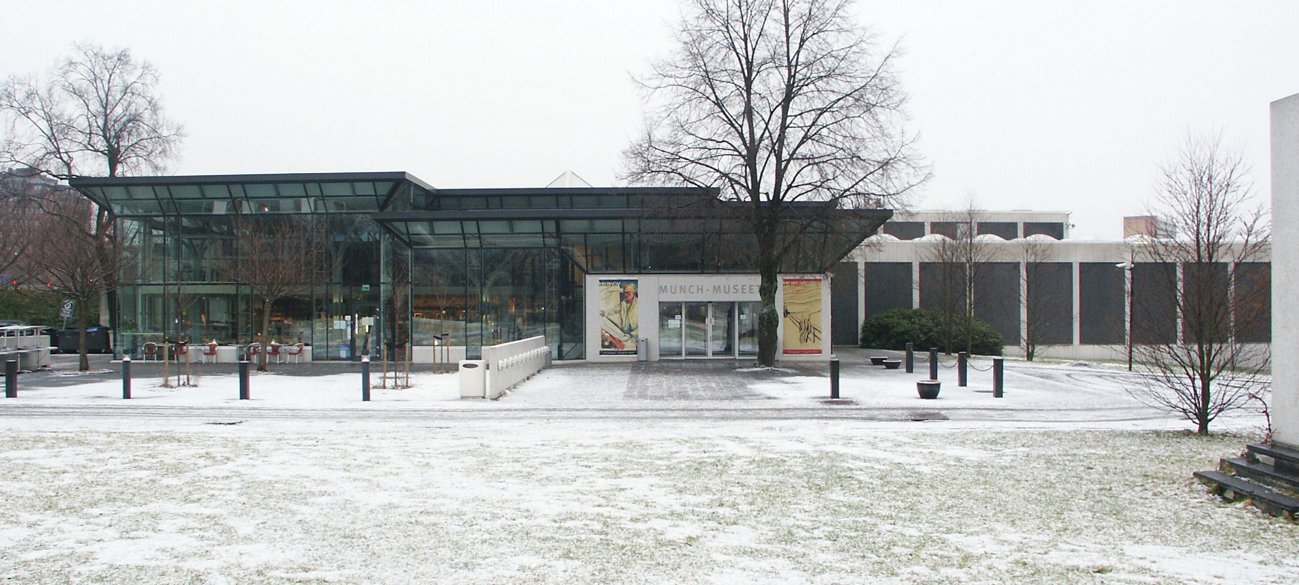 The Munch Museum, Tøyen, Oslo, Norway. Architect Einar Myklebust